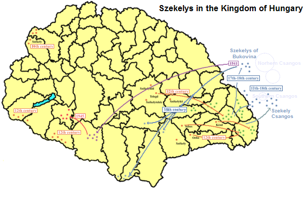 Migration map